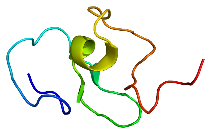 Structure of the BAZ1B protein. Based on PyMOL rendering of PDB 1f62.